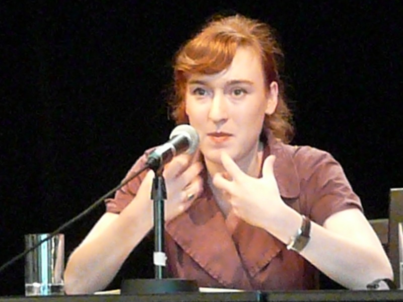 German poet Nora Bossong during an interview at the Erlanger Poetenfest 2011